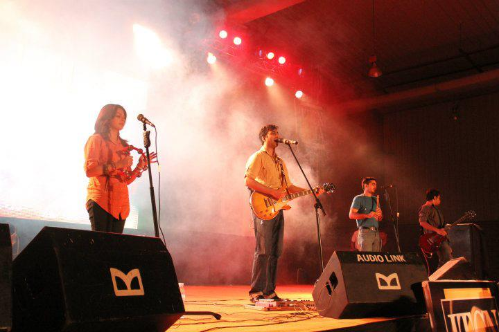 Laal performing live at the Microsoft Pakistan Open Door 2011 in Karachi, Sindh. Visible from left to right are band members; Mahvash Waqar, Taimur Rahman and Haider Rahman.